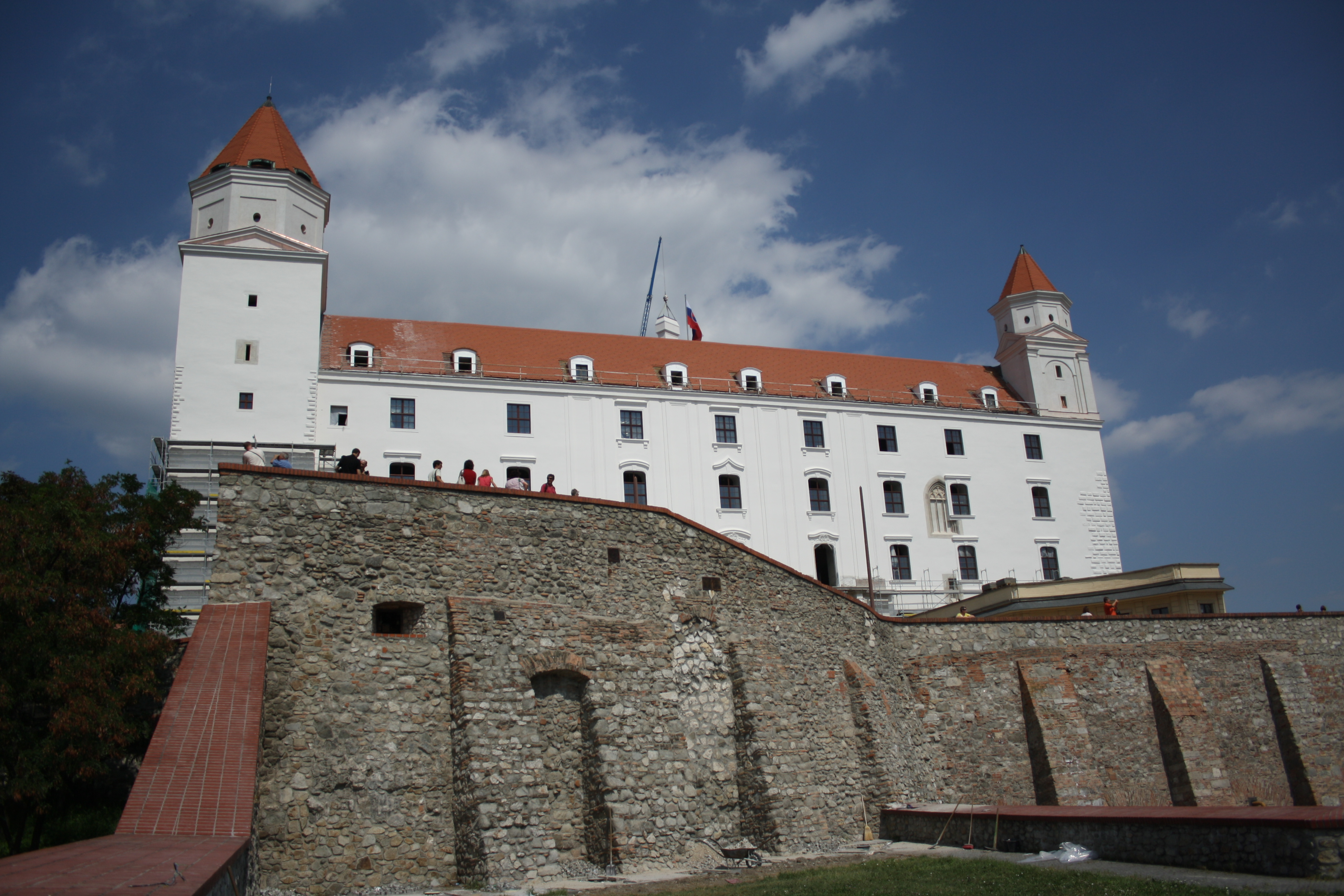 Bratislava castle with fortification, view from down level.